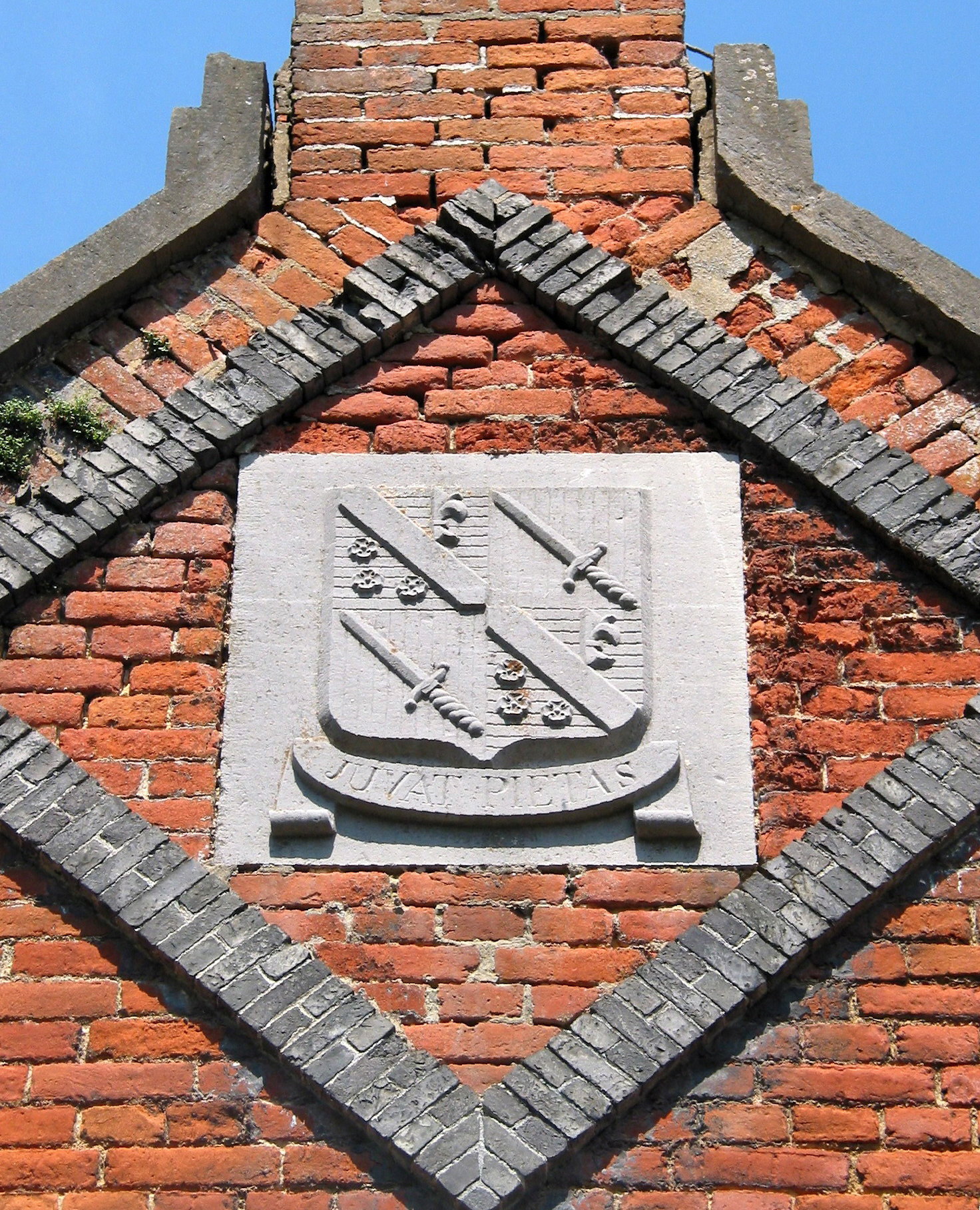 'Chimay (Belgium), coat of arms of the de Caraman Chimay family .